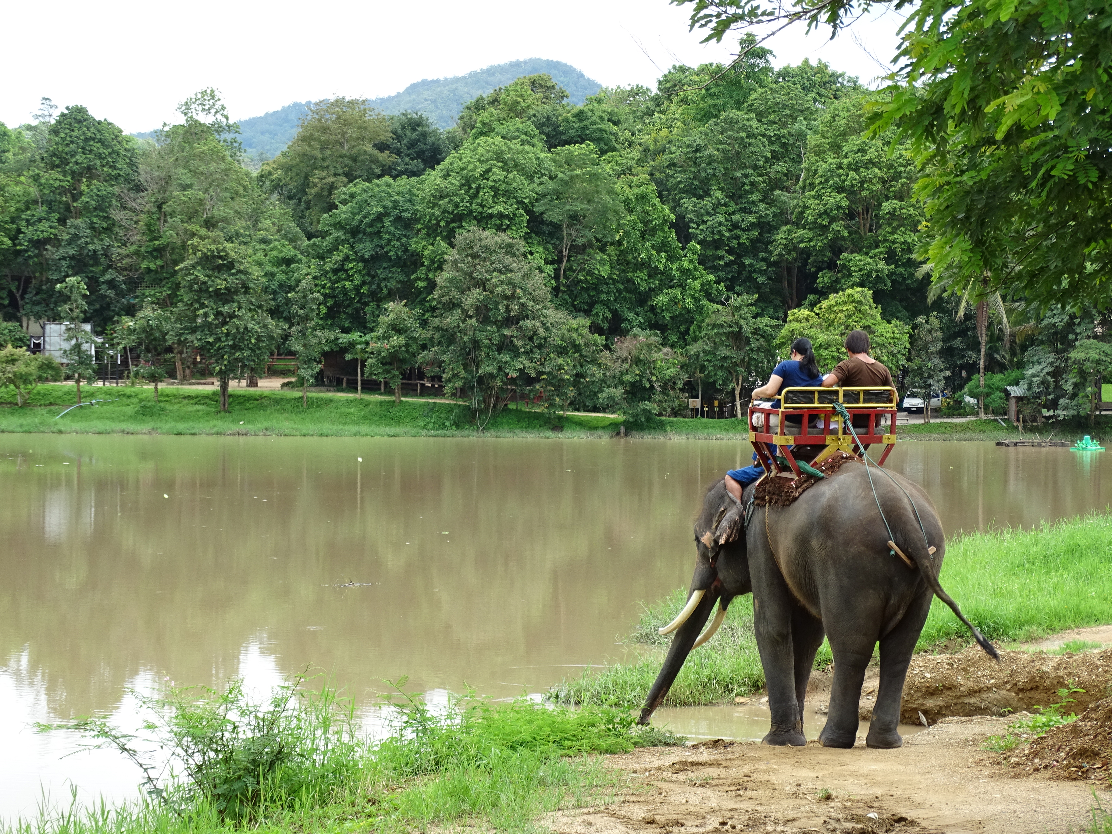 Elephant with Tourists Aboard - Thai Elephant Conservation Center - Hang Chat - Thailand